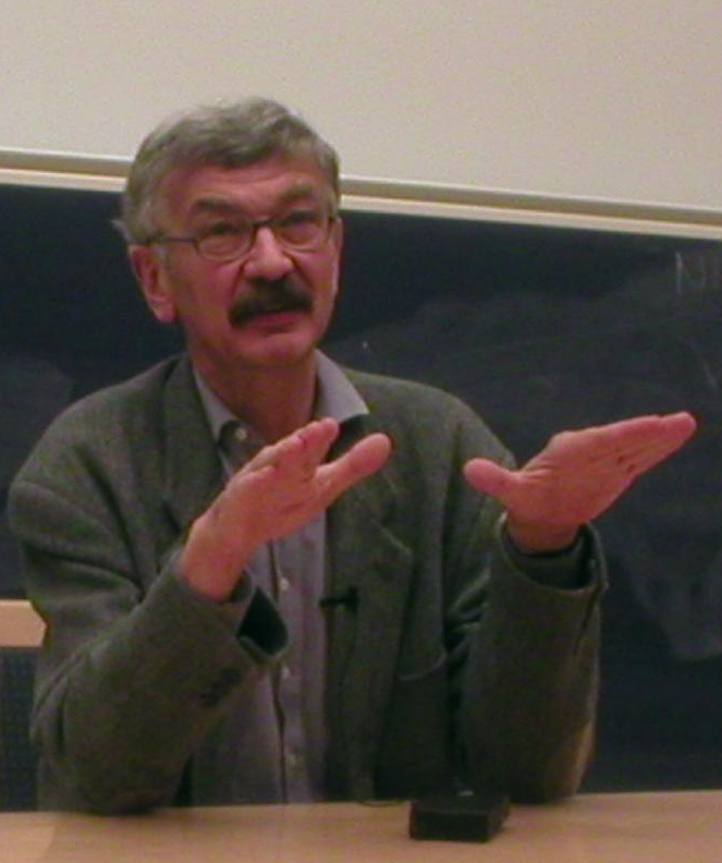 Portrait de Christoph Hein / German author Christoph Hein, speaking at University of Göteborg, Sweden 2005.